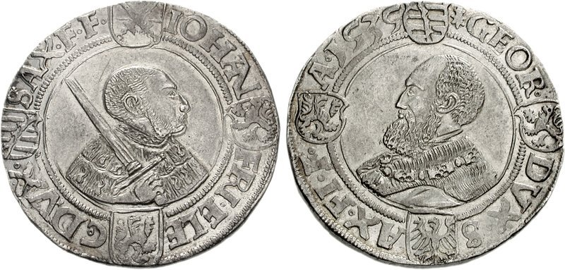 GERMANY, Sachsen-Kurfürstentum. Elector Johann Friedrich I and Georg der Bärtige, Duke of Saxony. 1532-1554. AR Taler (28.96 g, 1h). Annaberg mint. Dated 1535. IOHAN FRI • ELE C • DVX • SAX • F • F •, bare-headed and mantled bust of Johann Friedrich I right, holding sword in right hand upright against right shoulder; around, elements of the coat-of-arms of Sachsen-Kurfürstentum around / (ermine) GEOR • DVX • S AX • FI • F • A • J535, bare-headed and mantled bust of Georg left, wearing the Order of the Golden Fleece. Schnee 72; Schulten 3060; Davenport 9721. Choice EF. Finest known for this issue.